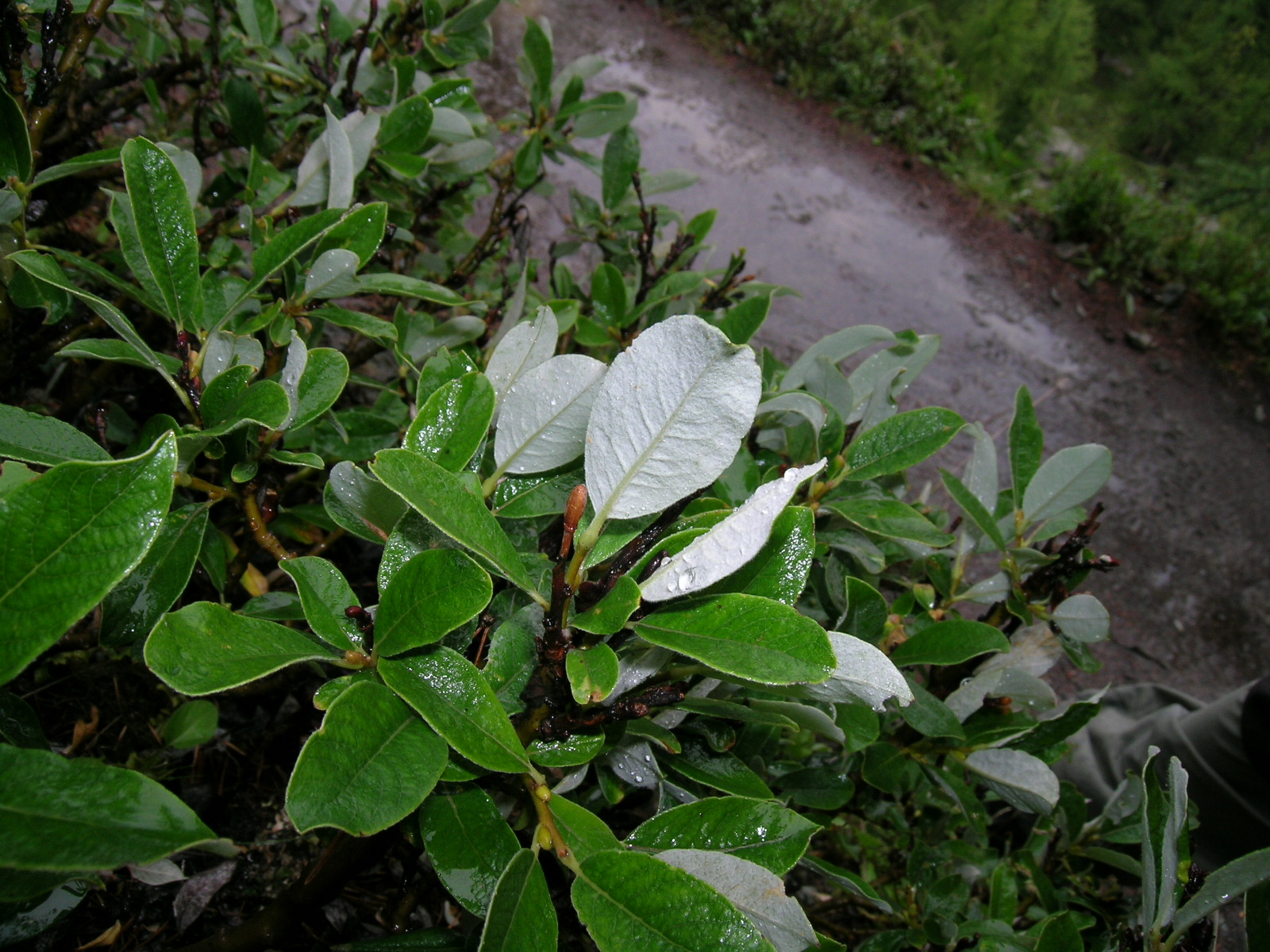 Salix glaucosericea Zermatt, way to Findelen (Kanton Wallis, Switzerland), 2300 m Author: Roland Teuscher – own photograph Date: 3.08.06